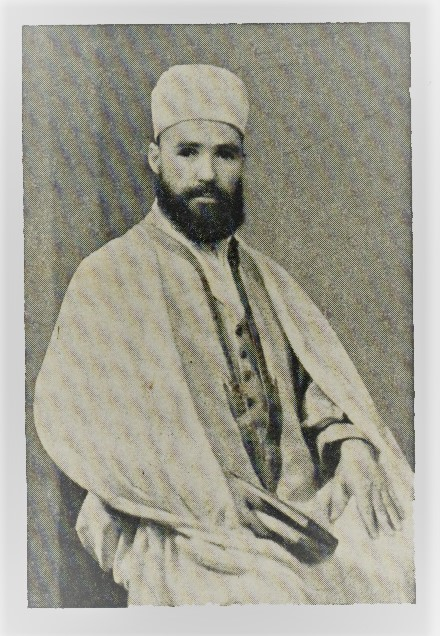 Mubarak al-Mili, known as Melli, is an Algerian reformist who was active during the French occupation of Algeria and was a prominent member of the Association of Algerian Muslim Scholars